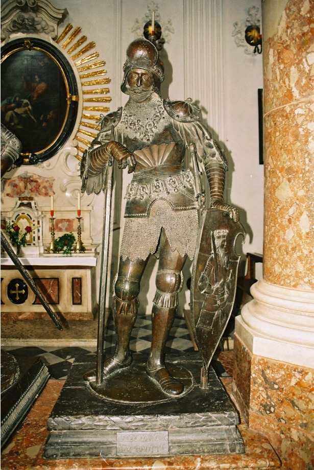 Bronze statue of Theodoric the Great, king of the Ostrogoths, by Peter Vischer the Elder (1512-13) at the tomb of Emperor Maximilian I in the Court Church in Innsbruck, Austria.